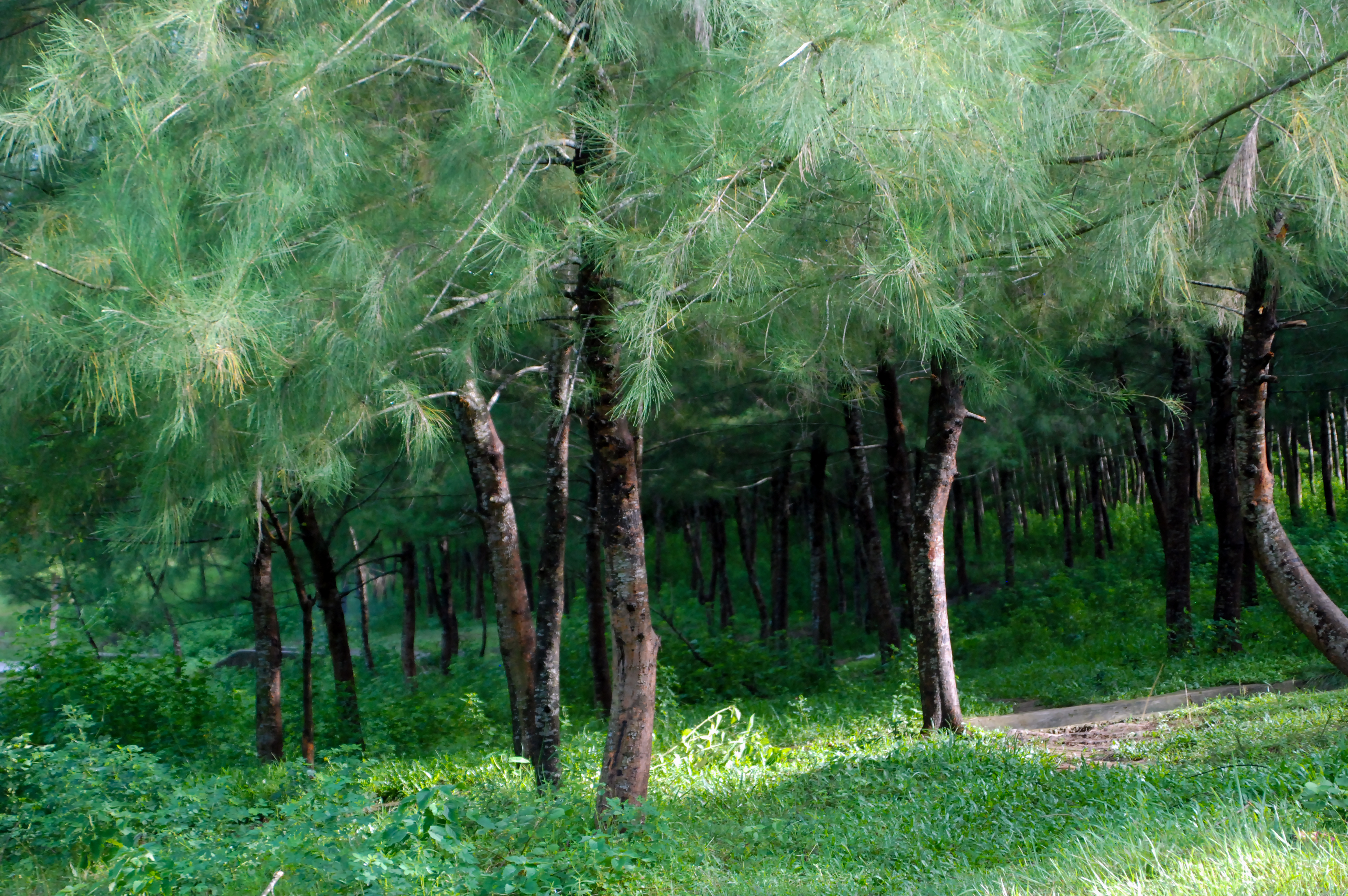 Casuarina, Mahamaya Lake